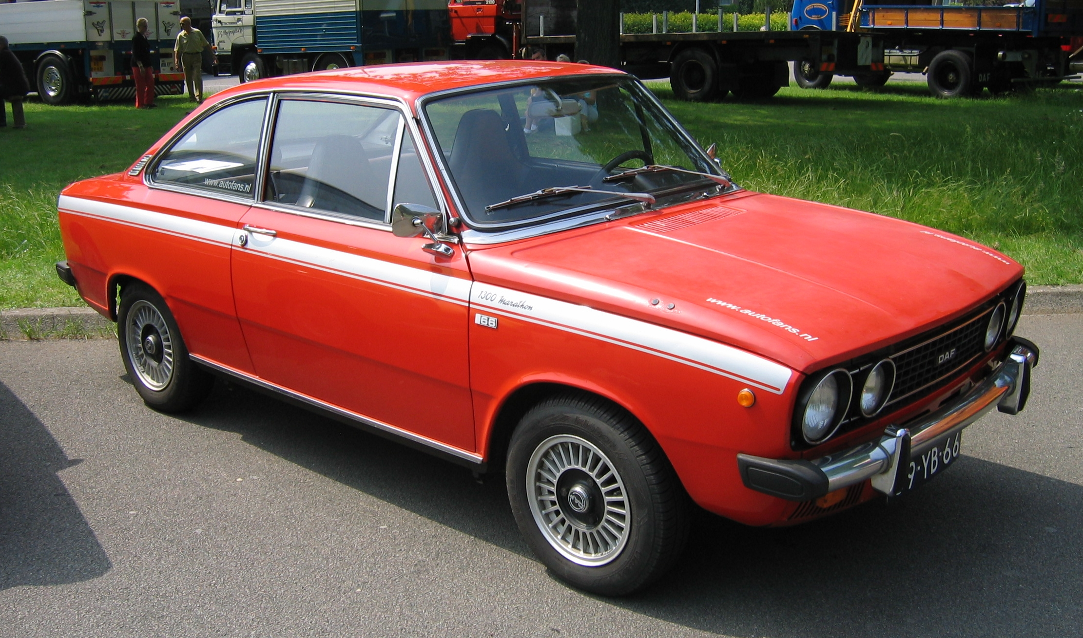 A DAF 66 at the DAF exposition during the Eindhoven Pole Position weekend.